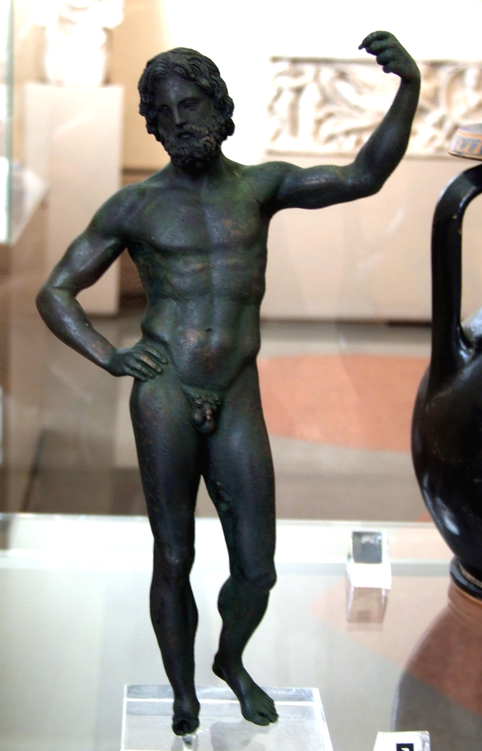 statuette of god (Zeus?). bronze, 4 c. BC. Pushkin museum